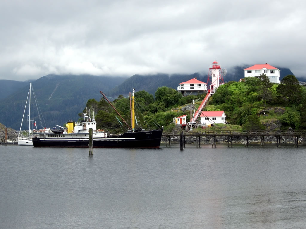 Nootka Lighthouse overlooks the wharf at Friendly Cove, British Columbia, Canada.